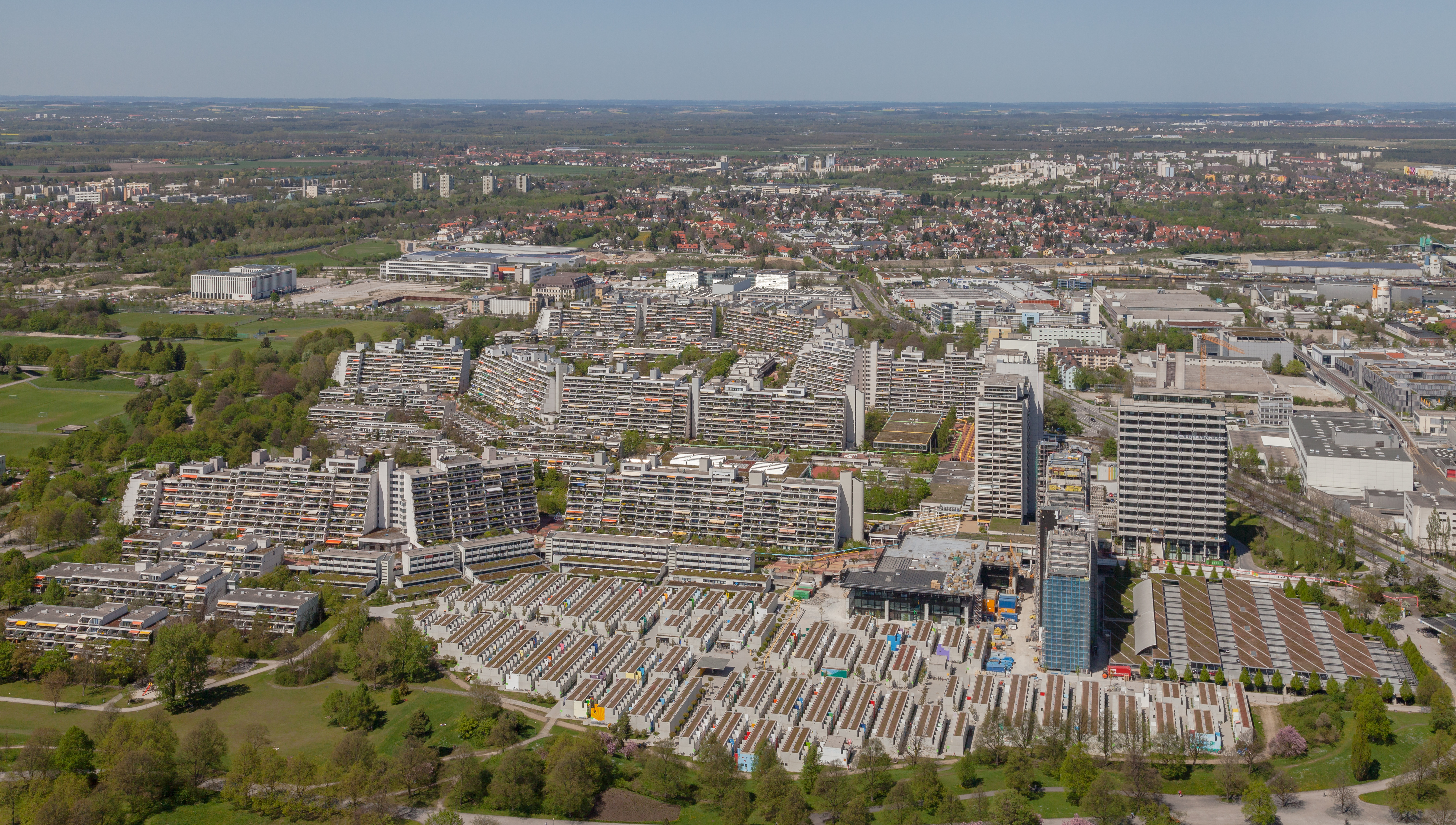 Olympic Village, Munich, Germany